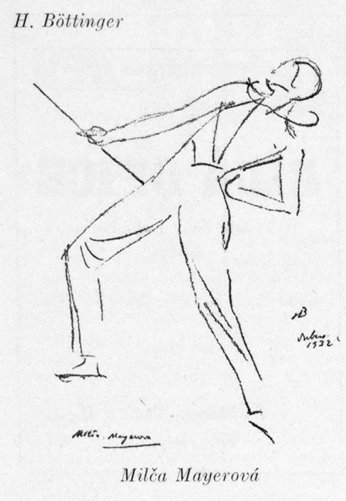 Czech dancer Milča Mayerová by Hugo Boettinger Česky: Tanečnice Milča Mayerová, kresba Hugo Boettinger